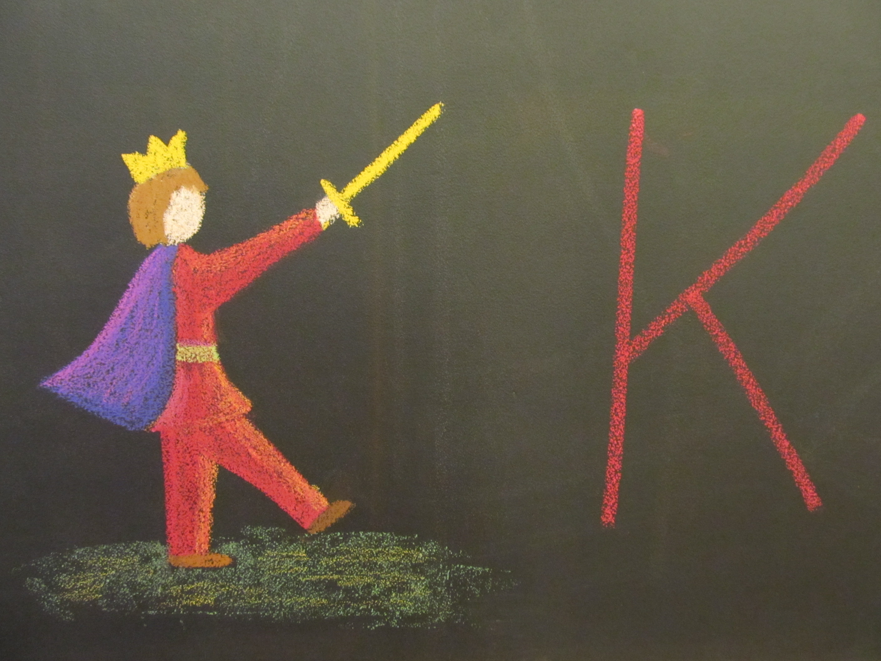 Waldorf 1st grade introduction of alphabet